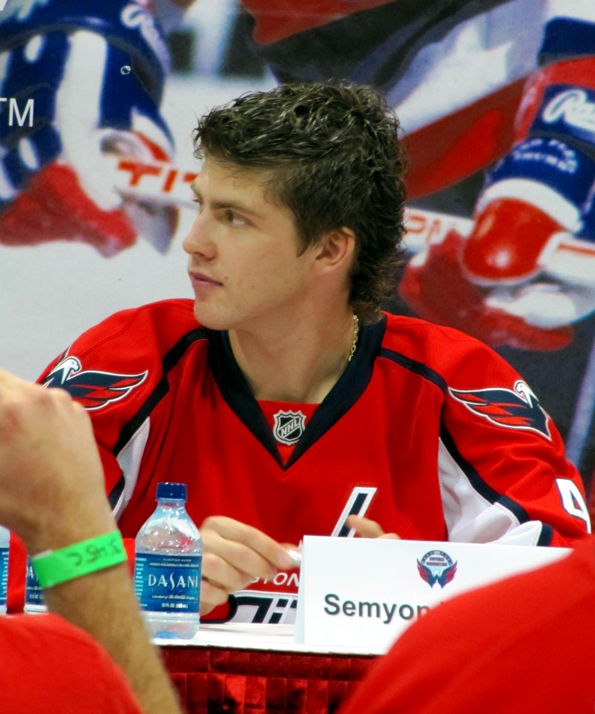 Semyon Varlamov, Washington Capitals